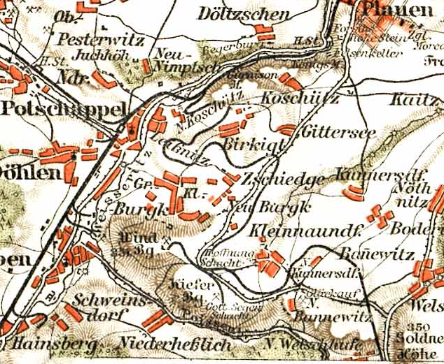 Map of the Windbergbahn